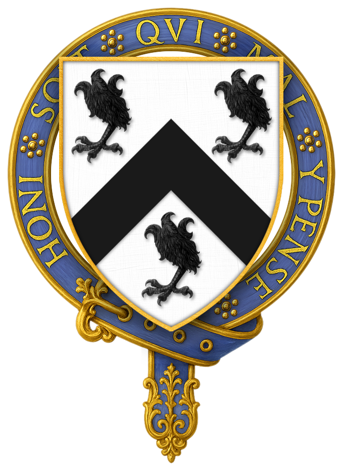 Coat of arms of Sir Reginald Bray, KG See the Bray Window in Great Malvern Priory Church, Malvern, Worcestershire. Arms of Bray: Argent, a chevron between three eagle's legs erased sable